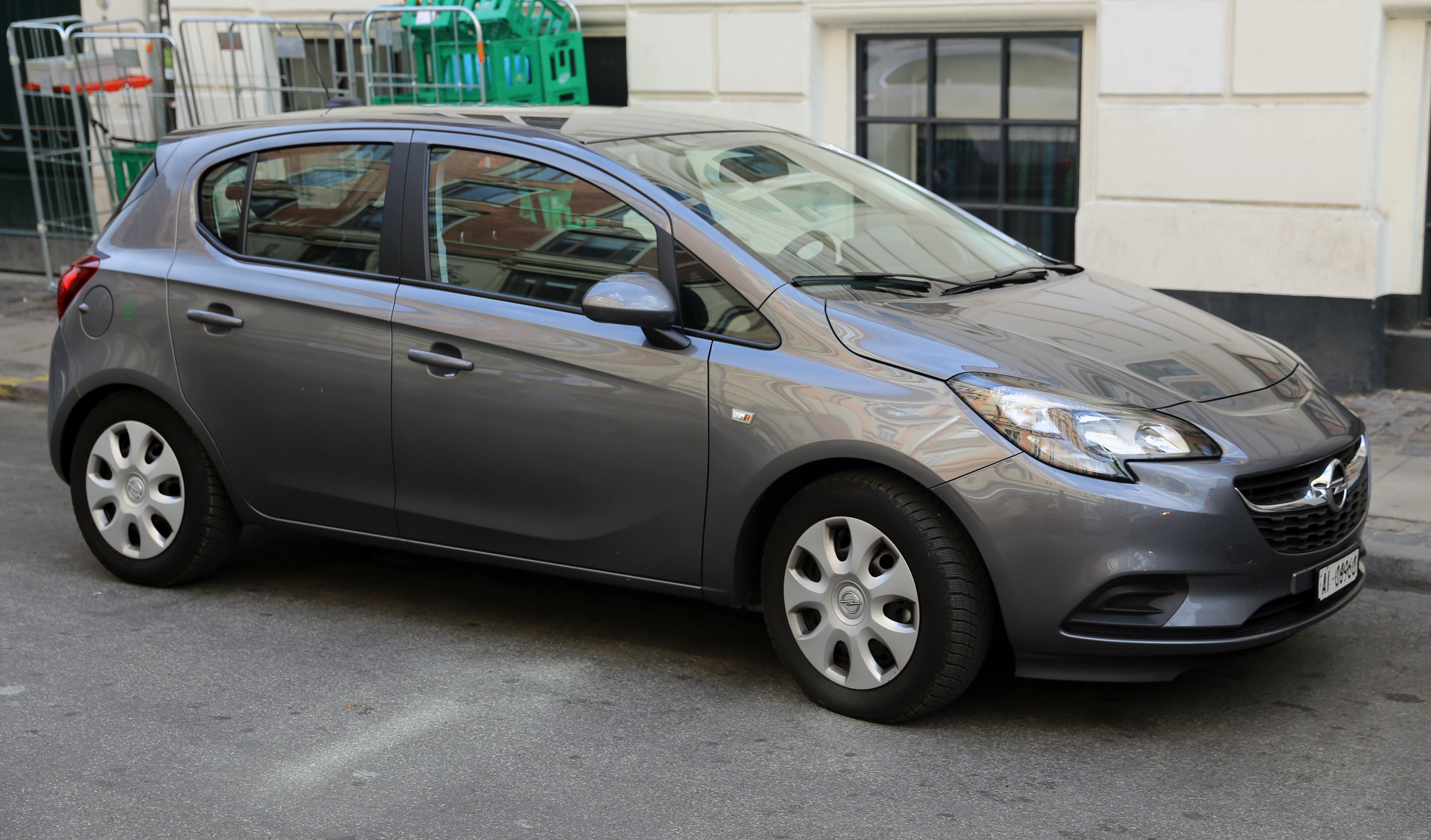 A 2016 Opel Corsa EcoFlex five-door, rental car registered in Appenzell Innerrhoden (Switzerland), at Gammel Holte, Denmark.